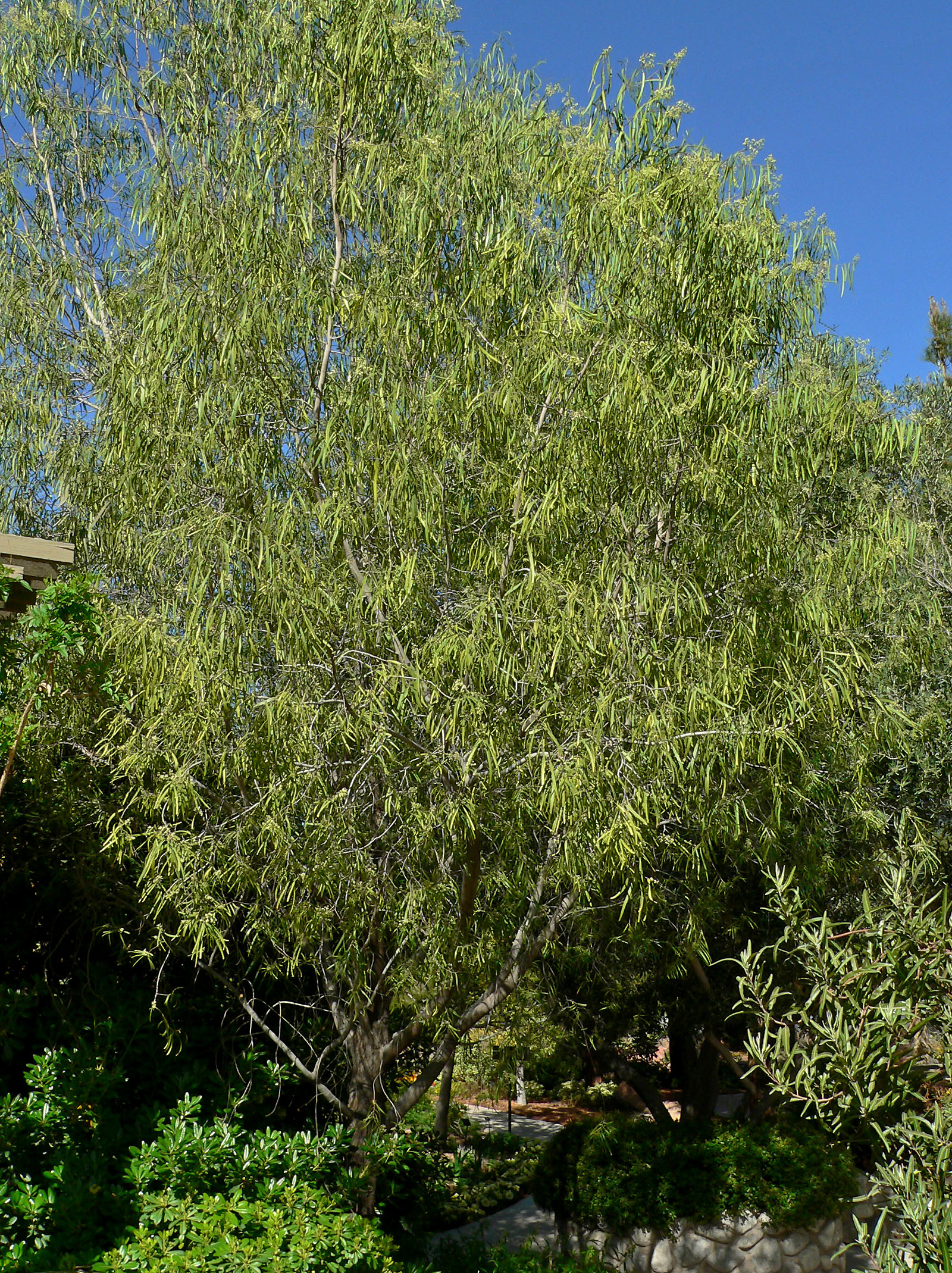 Geijera parviflora at the Springs Preserve garden, Las Vegas, Nevada